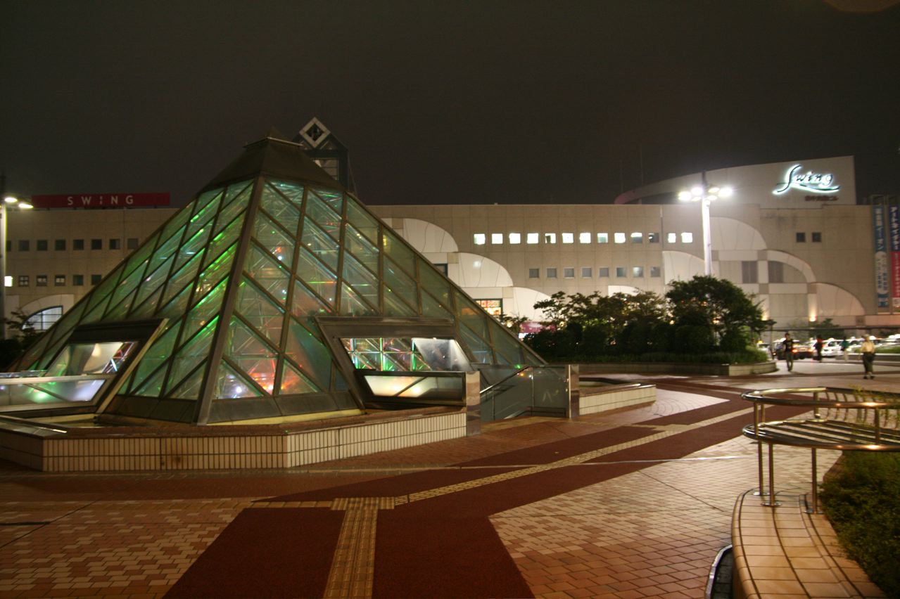 Humos Swing building, location of Izumi-Chūō Station in Sendai, Japan